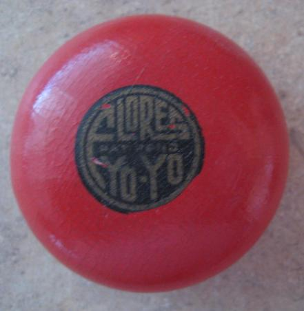 Pedro Flores Yo-yo Circ. 1928-1929